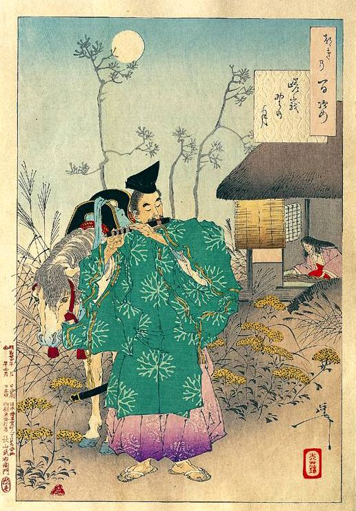 Saga Moor moon (Sagano no tsuki)